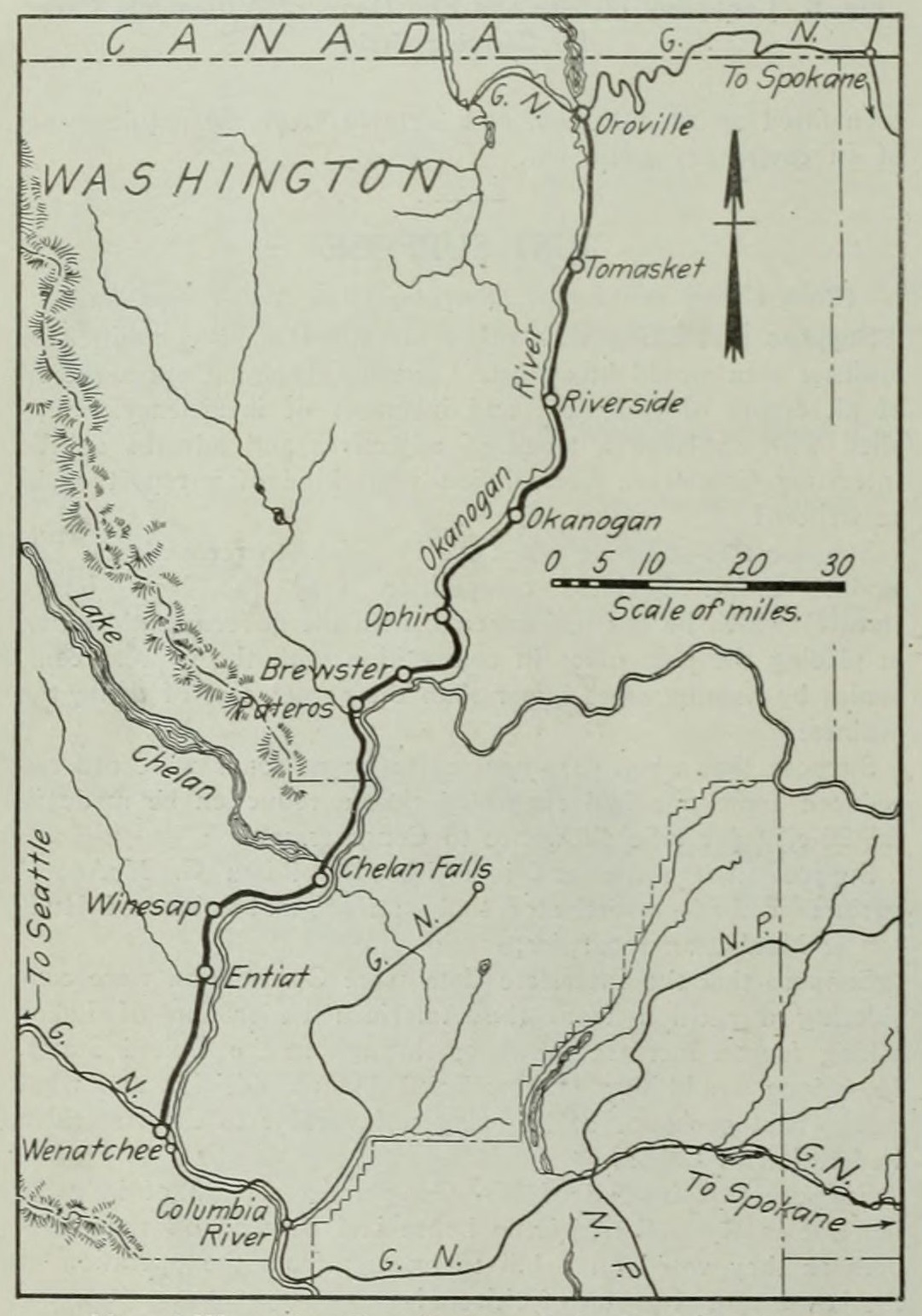 Map from Railway Age Gazette Volume 57 (5) pp 202-204 showing the new Great Northern Line from Oroville to Wenatchee in Washington State.